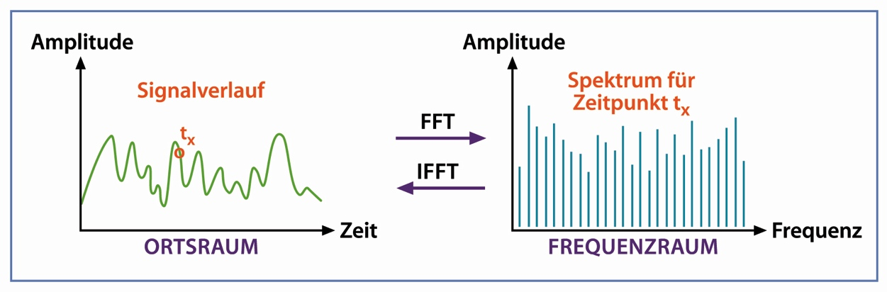 The Graphic was made for the Article about Convolution (Audio Engineering).